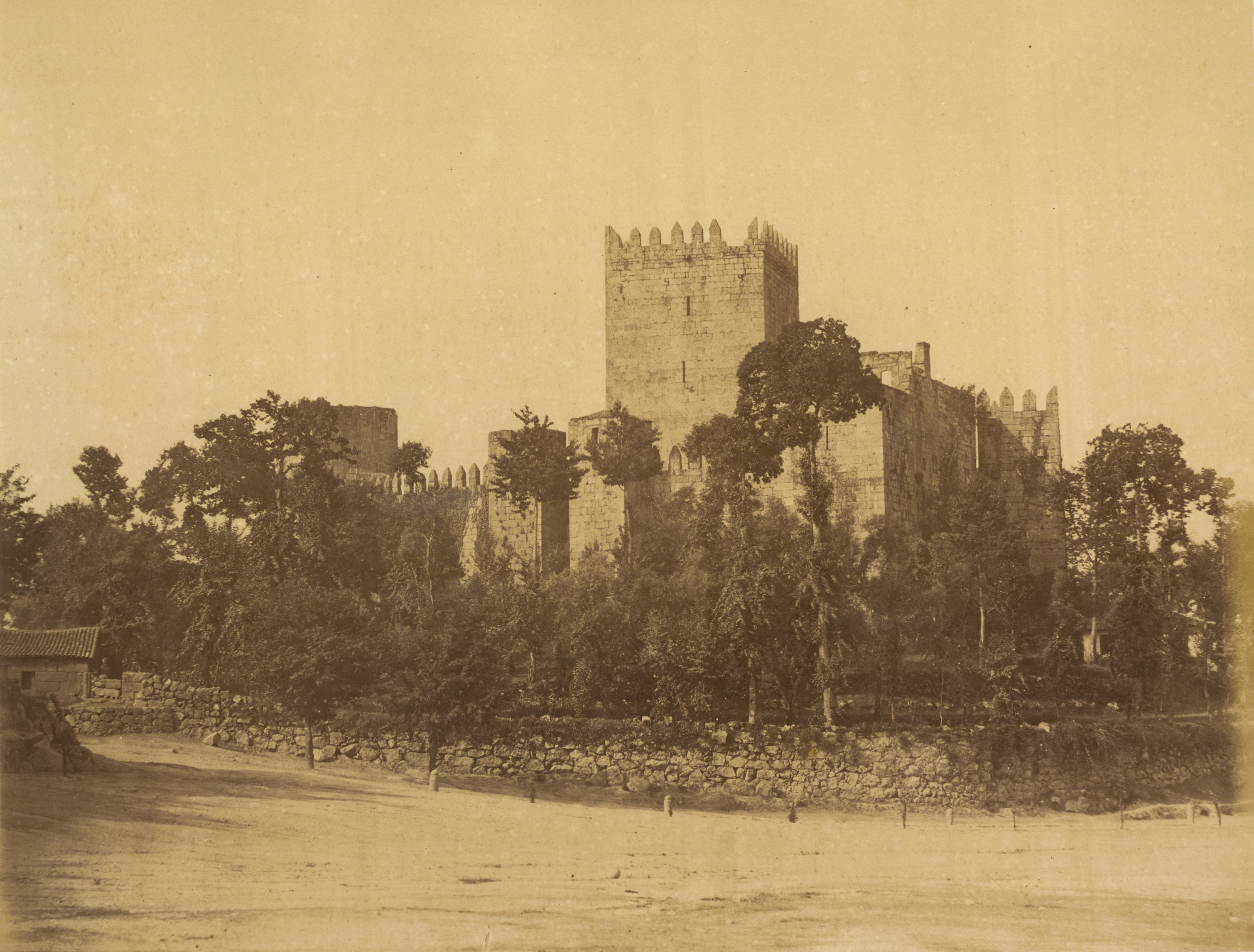 Guimarães castle in the middle of XIX century.